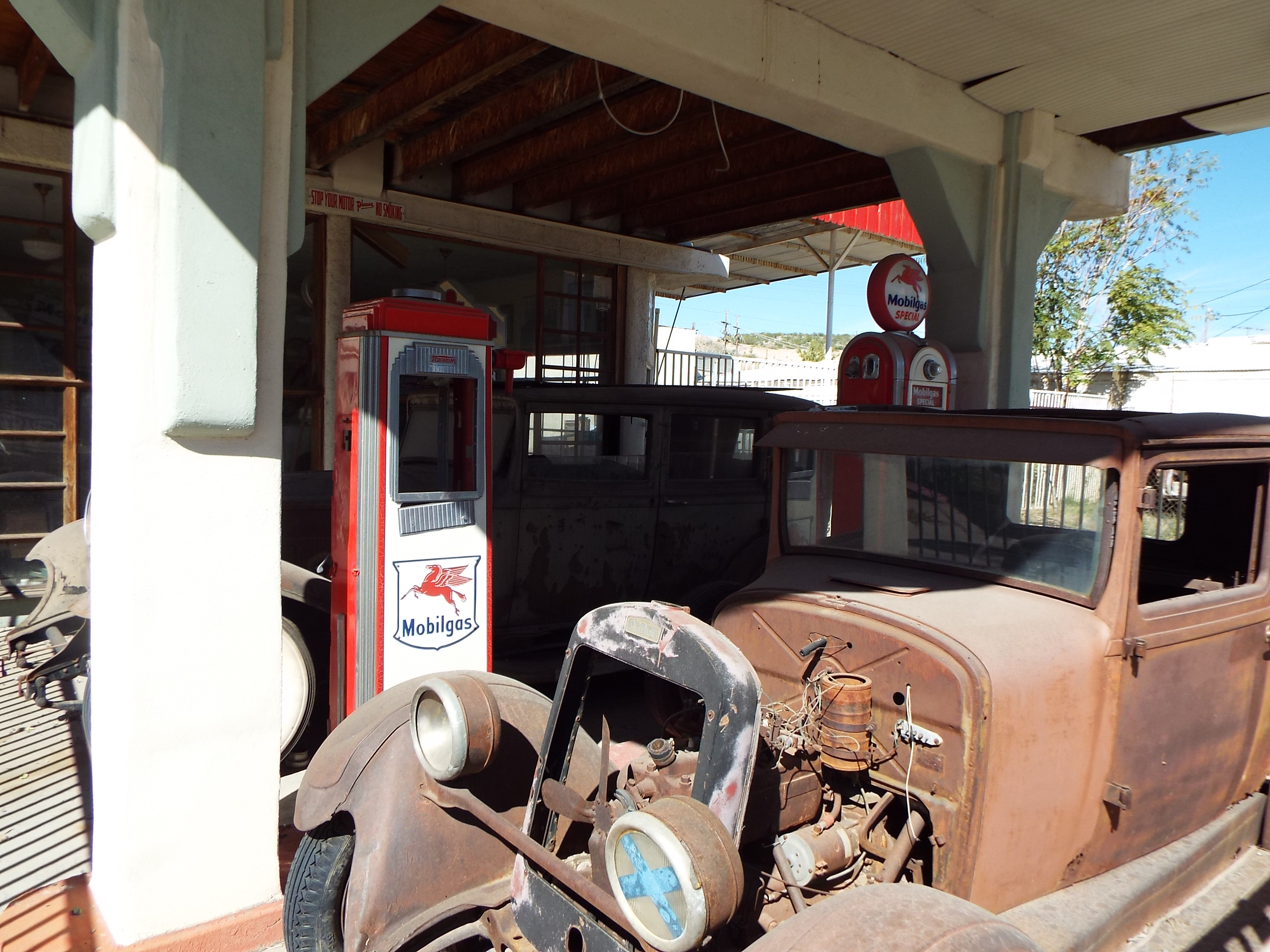 Miami, Az.-Mobil Gas Station-314 Live Oak Street-1920